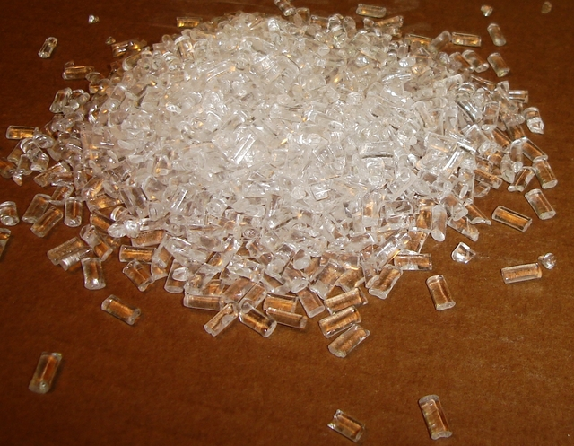 consolidating wood grain